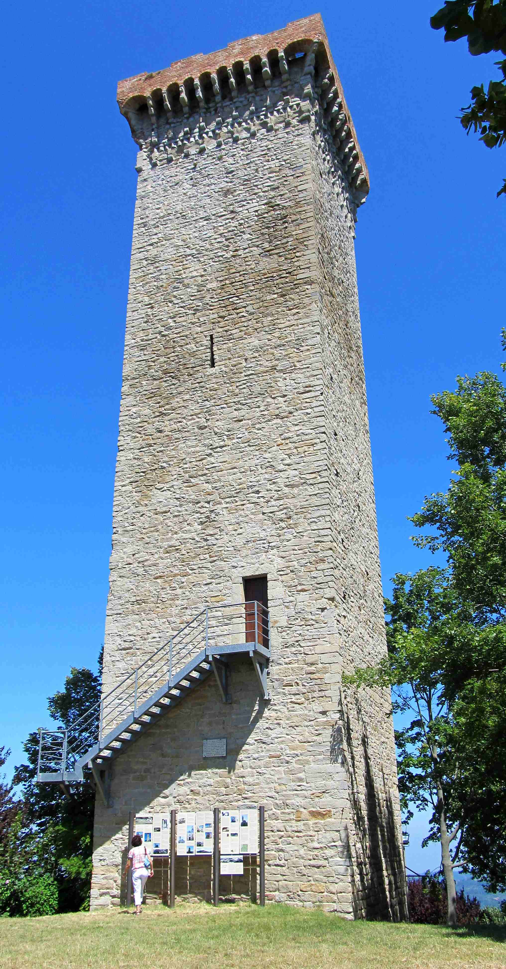 Murazzano (CN, Italy): middle ages tower